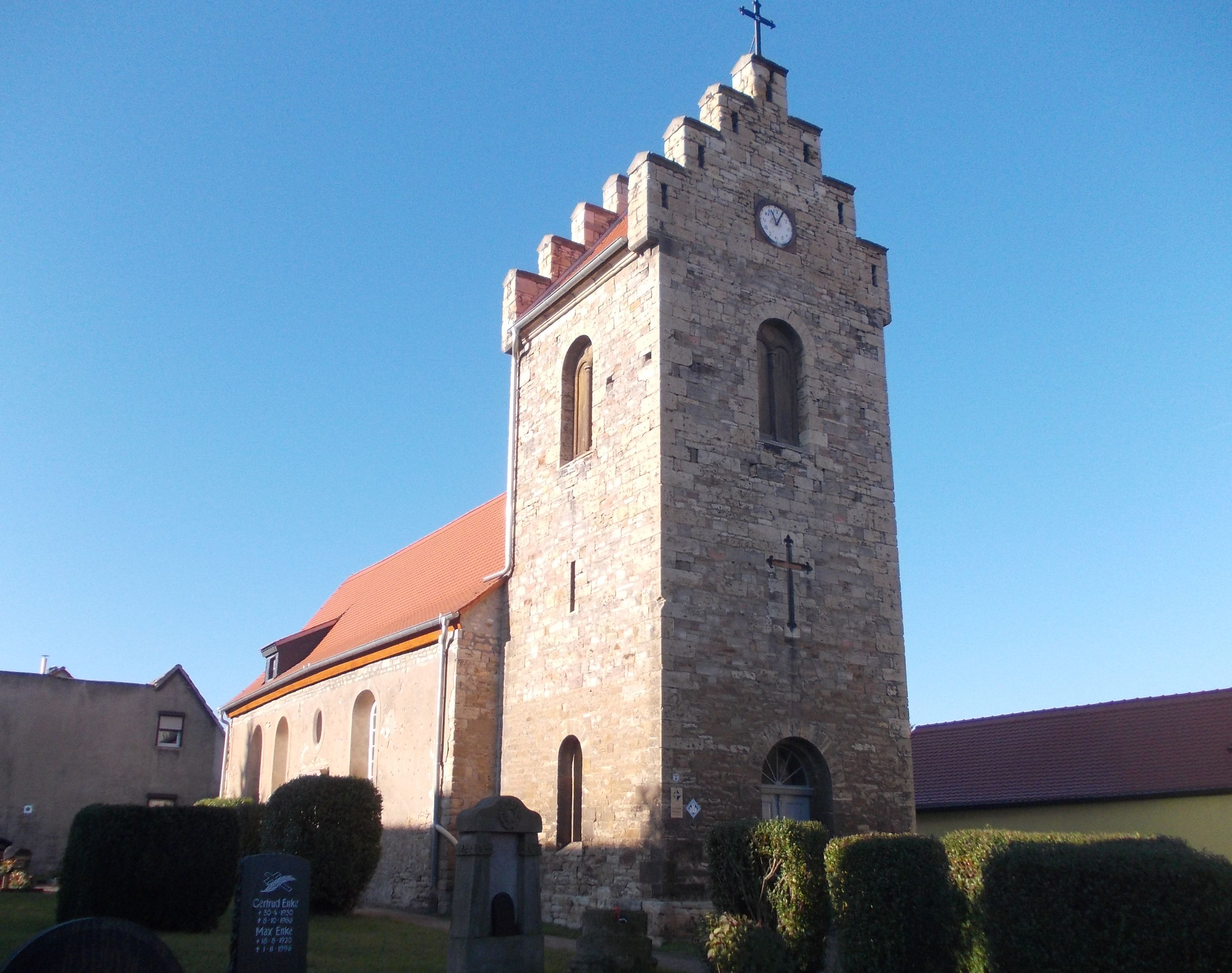 Reipisch church (Braunsbedra, district: Saalekreis, Saxony-Anhalt)